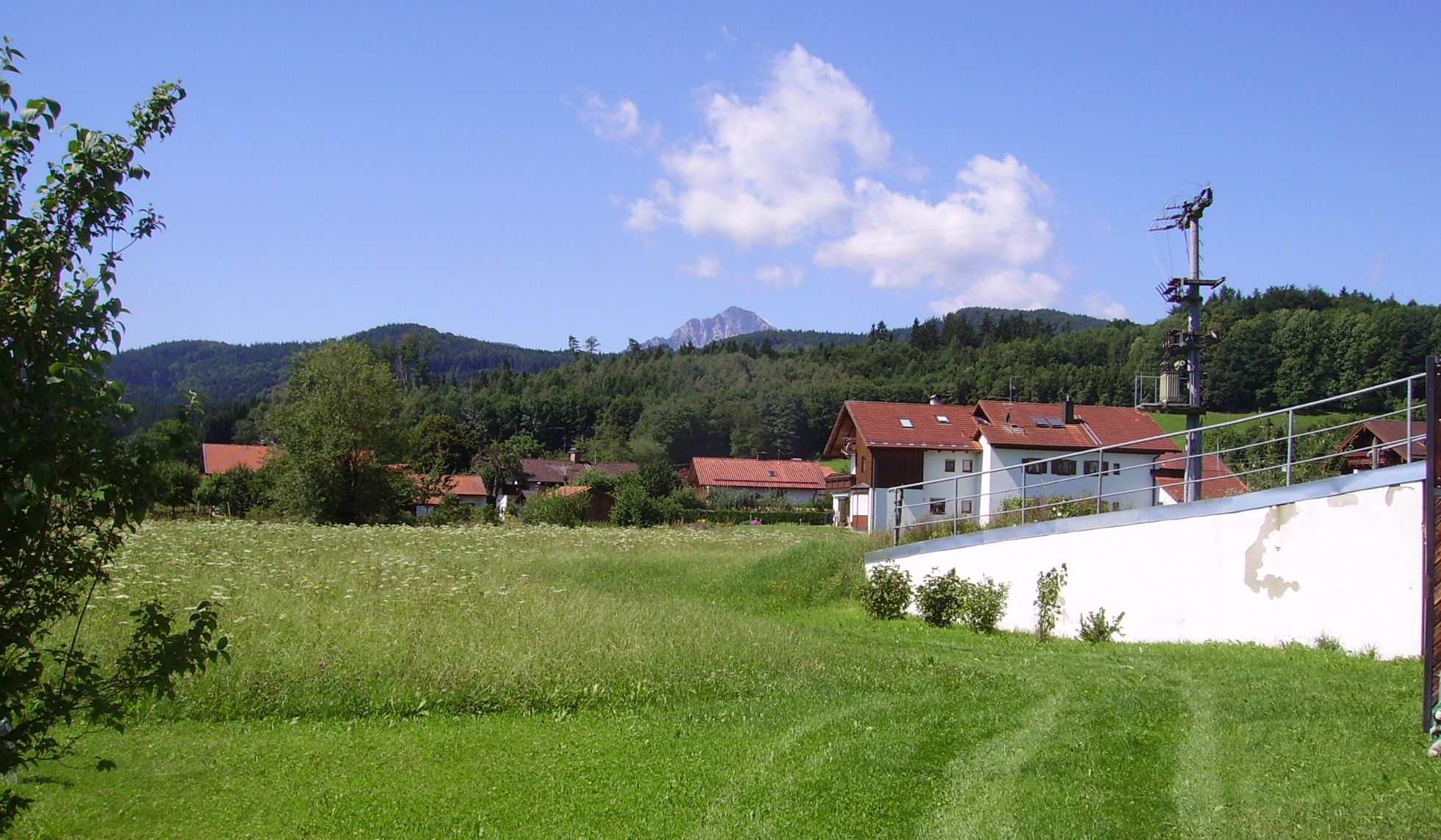 Ainring, village in Germany